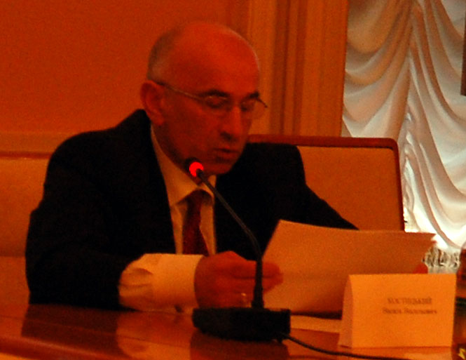 Vasyl Kostytskyi, Ukrainian politician and civic activist